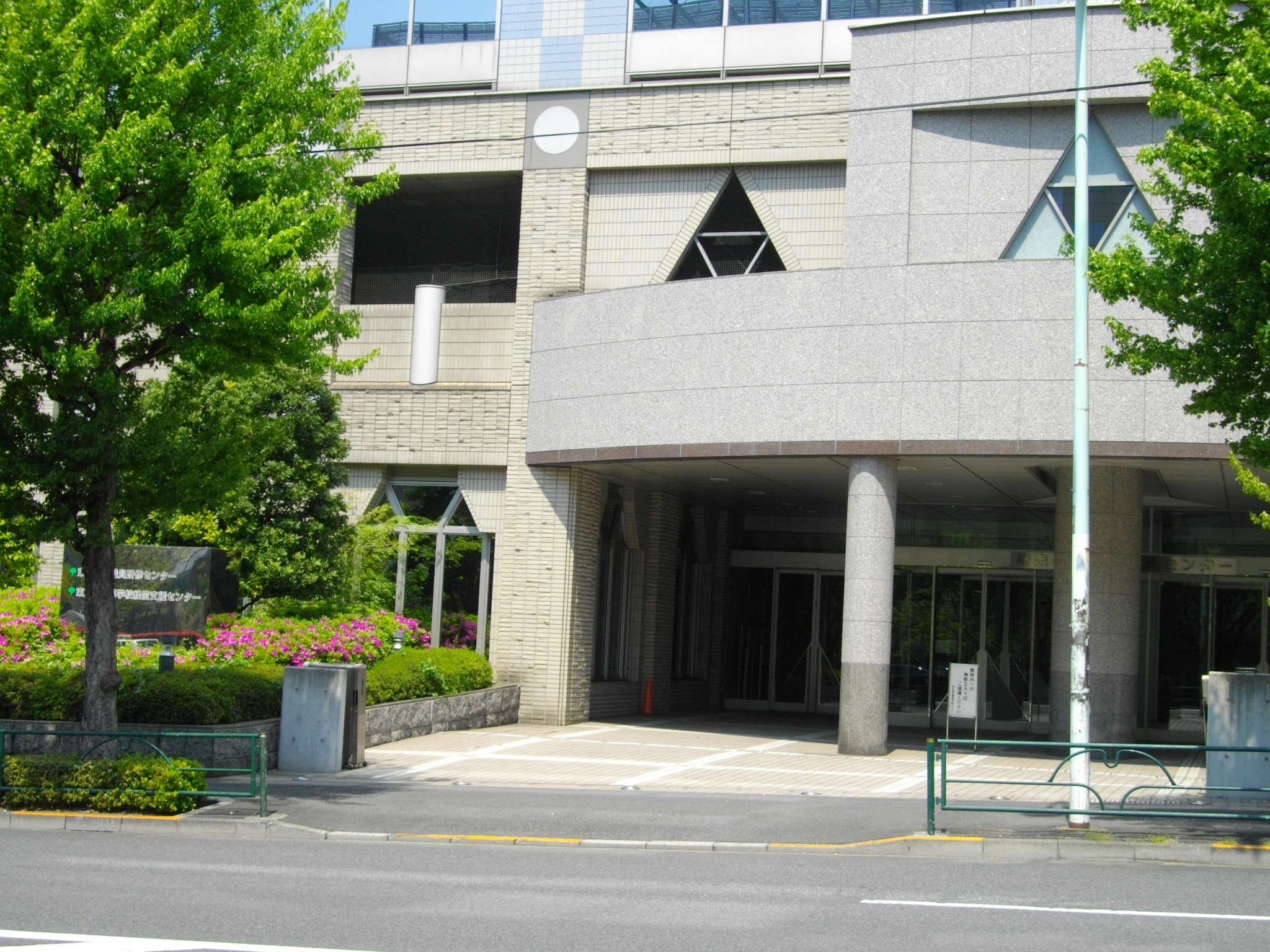 Tokyo Metropolitan School Personnel in Service Training Center